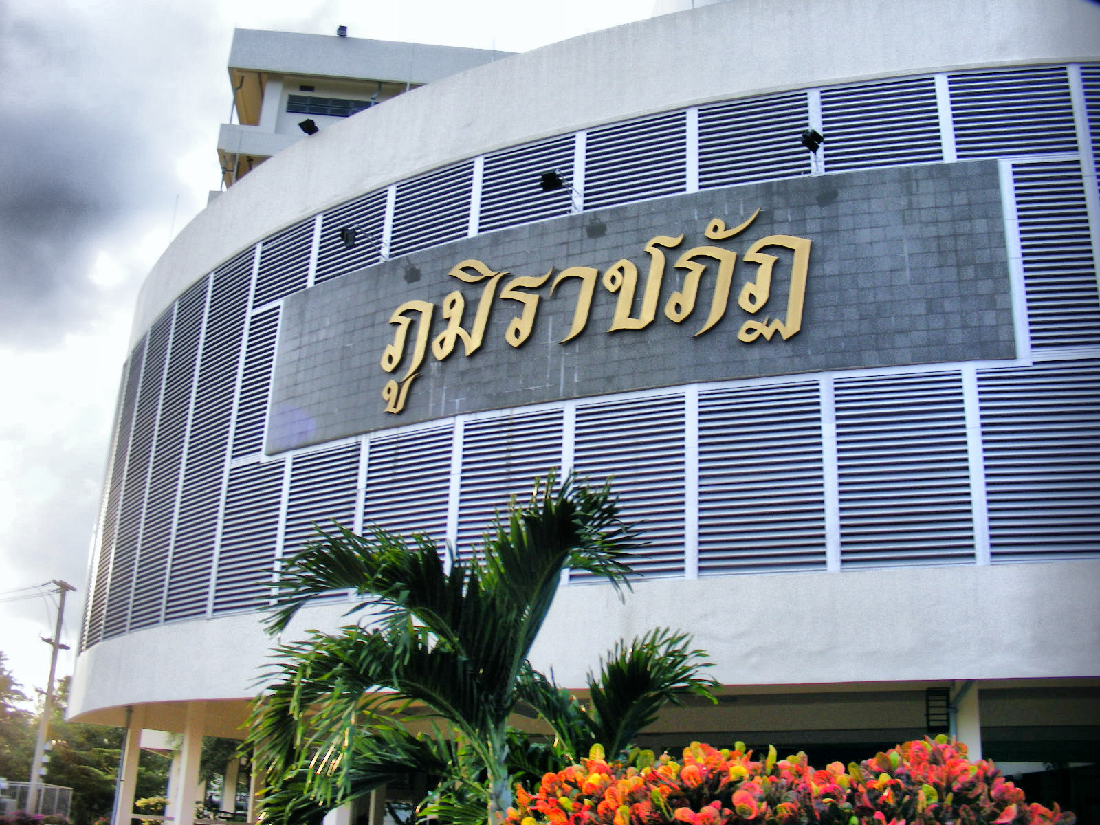 Uttaradit Rajabhat University Location: Uttaradit Rajabhat University Mueang Uttaradit, Uttaradit Province, Thailand.